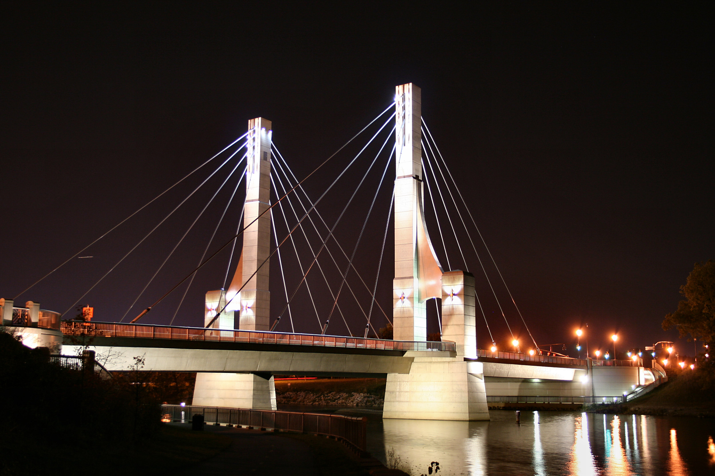 Cable-stayed bridge bridge over the Olentangy River at Lane Avenue, adjacent to the Ohio State University campus in Columbus, Ohio